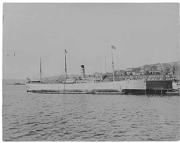 Part of a series depicting troops assembling at Fort Lawton and Seattle before embarking to China for the Boxer Rebellion . Caption on image: U.S.A.T. EGBERT. No 50. Peiser. Seattle. 8/7/00 . Peiser 10120 Subjects (LCTGM): Waterfronts--Washington (State)--Seattle; Piers & wharves--Washington (State)--Seattle; United States. Army--Equipment & supplies--Washington (State)--Seattle